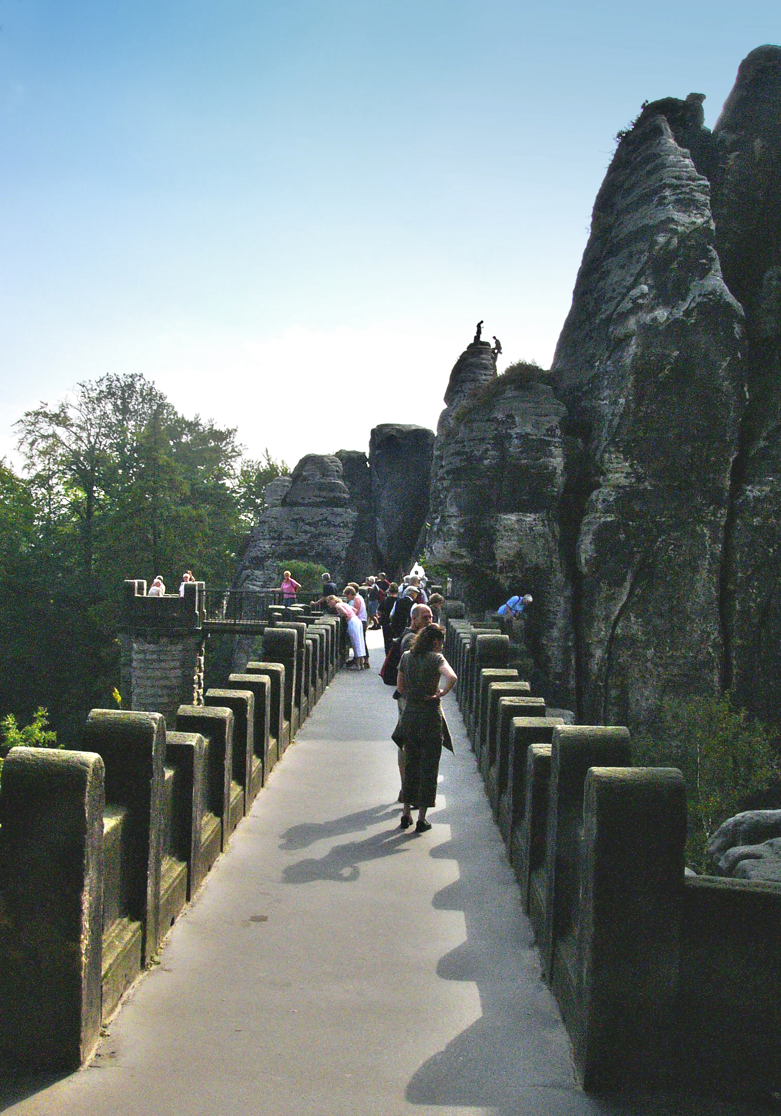 The Bastei is a rock formation above the Elbe River in Saxony, Germany. View to the Bastei bridge.